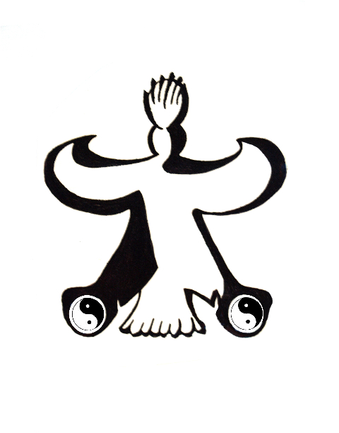 Falcon with yin and yang. The image of a falcon with spreaded wings is commonly used in Kungfu Toa.